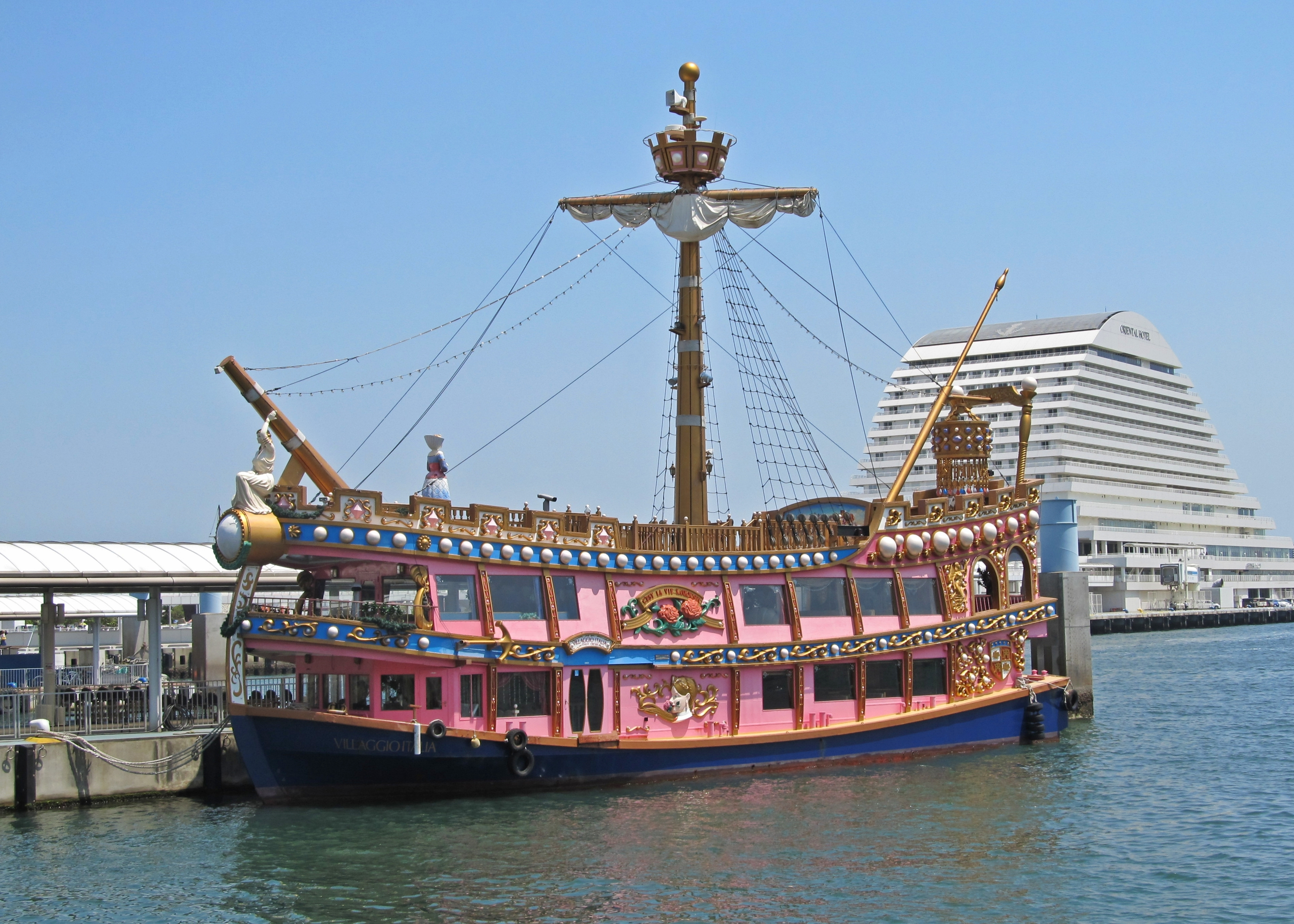 "VILLAGGIO ITALIA" at Port of Kobe(Chūō-ku,Kobe,Hyogo,Japan )